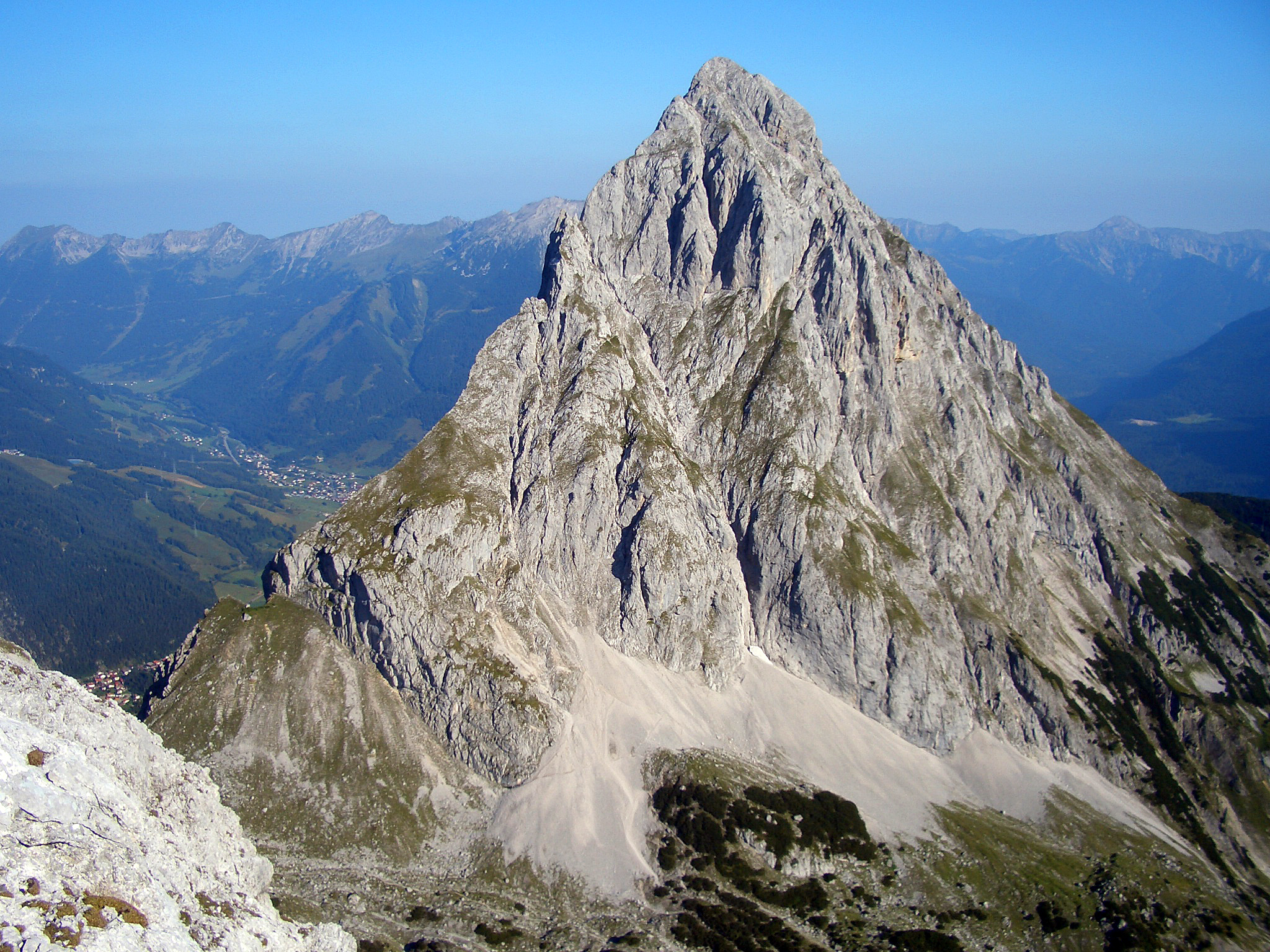 Ehrwalder Sonnenspitze (2417 m) seen from Southeast (from Drachenkopf)